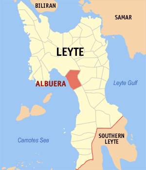 Map of Leyte showing the location of Albuera